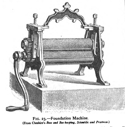 Foundation Machine Encylopaedia Britannica - 1911